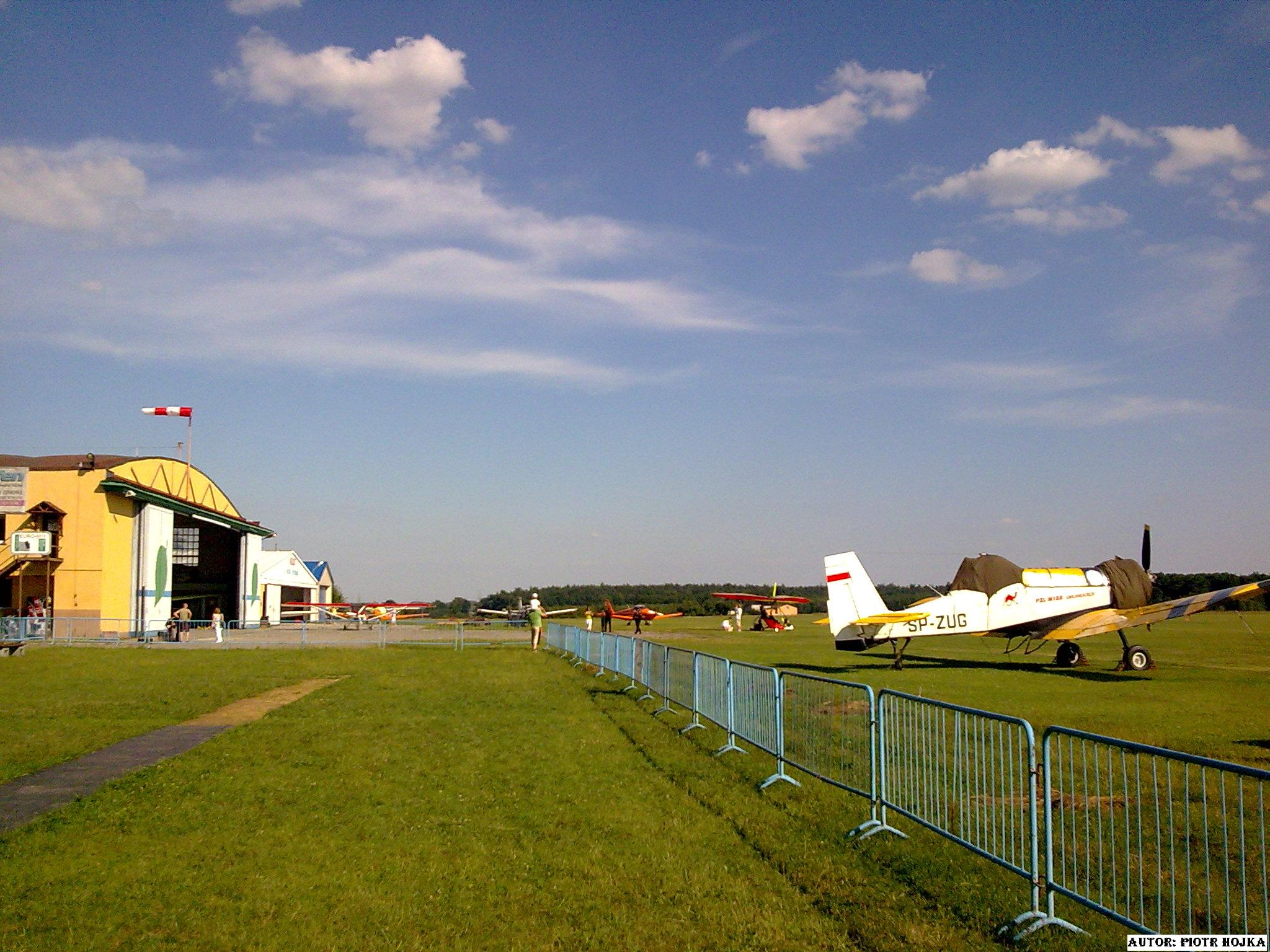 Airfield EPRG in Rybnik Gotartowice, Silesia, Poland.